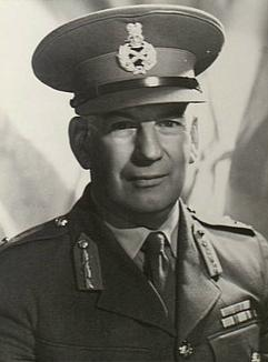 John Stewart Whitelaw (service number NX112427), Australian Army officer. Reached the rank of major general.